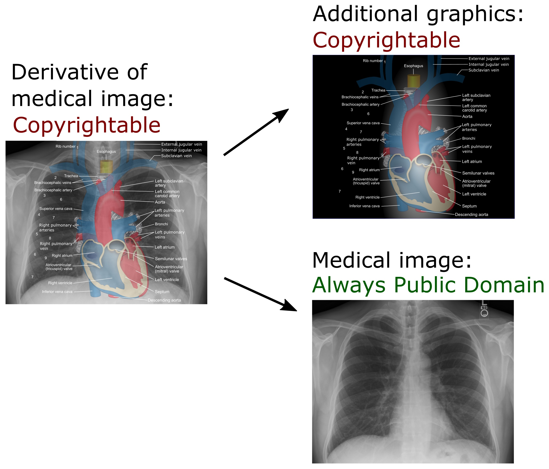 For derivatives of medical images created in the United States, added annotations and clarifications may be copyrightable, while the used medical image always remains Public Domain. See Meta:Wikilegal/Copyright of Medical Imaging.